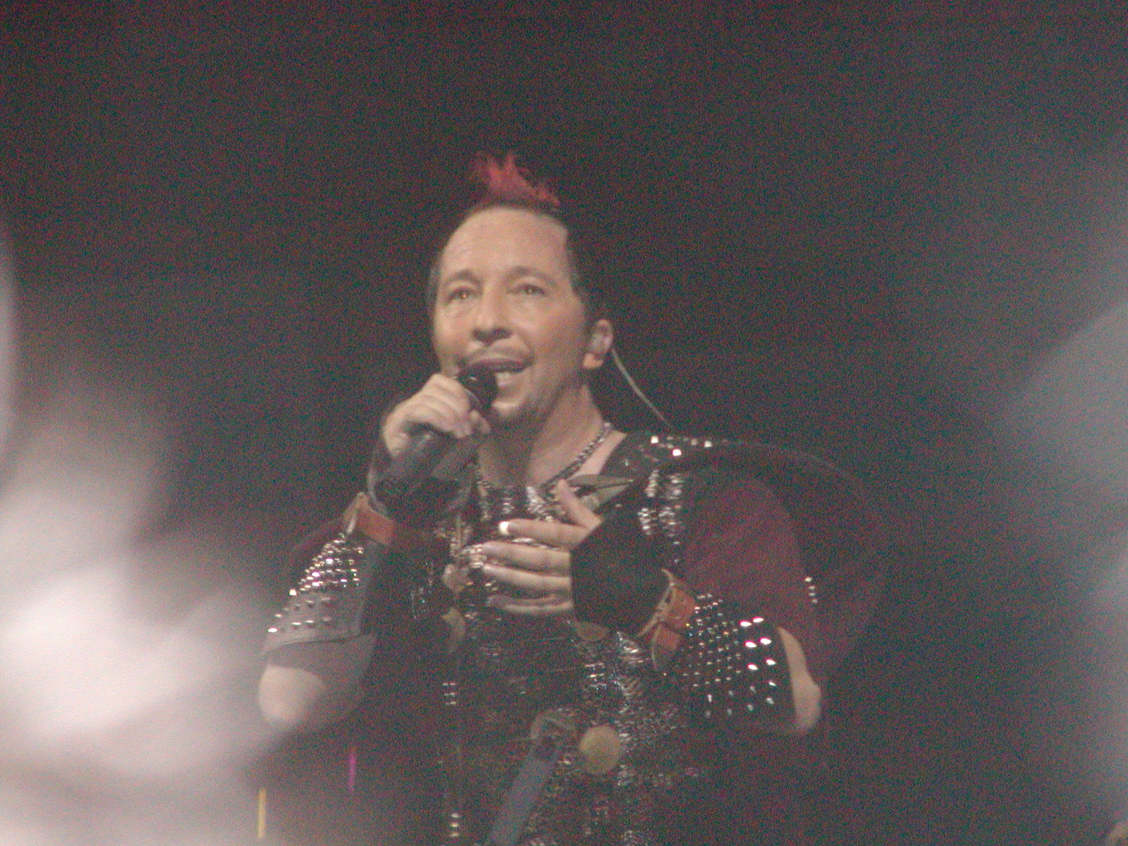 DJ BoBo during Pirates of Dance tour, Köln-Arena